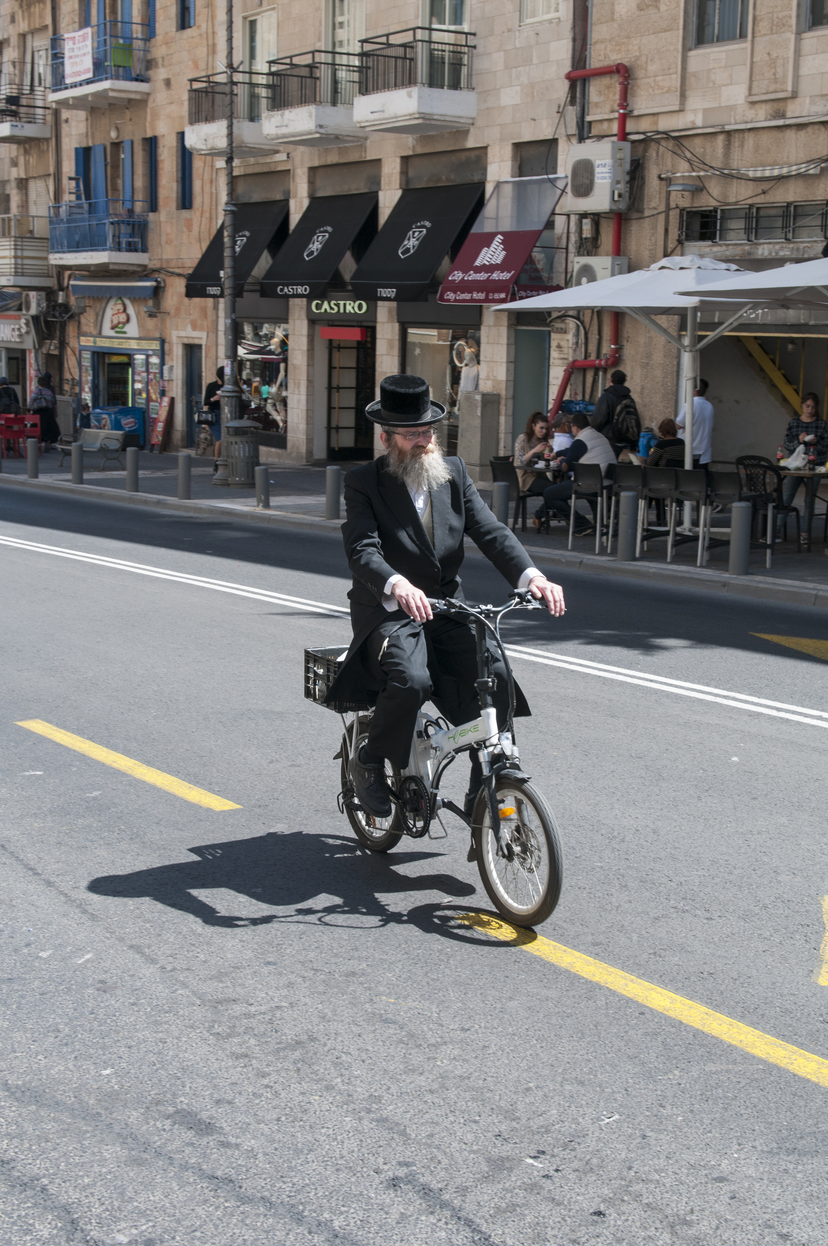 Street Scene Jerusalem, King George Street